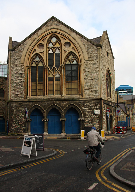 Whitfield Tabernacle, Moorfields. A cyclist makes his way along Tabernacle Street. The Tabernacle was named after George Whitefield (the name seems to have changed over time) co-founder of the Methodist movement, who died in 1741. Beside the old Tabernacle, a pair of telephone engineers can be seen working. See 1036971 by Dr. Neil Clifton for the view from Leonard Street.